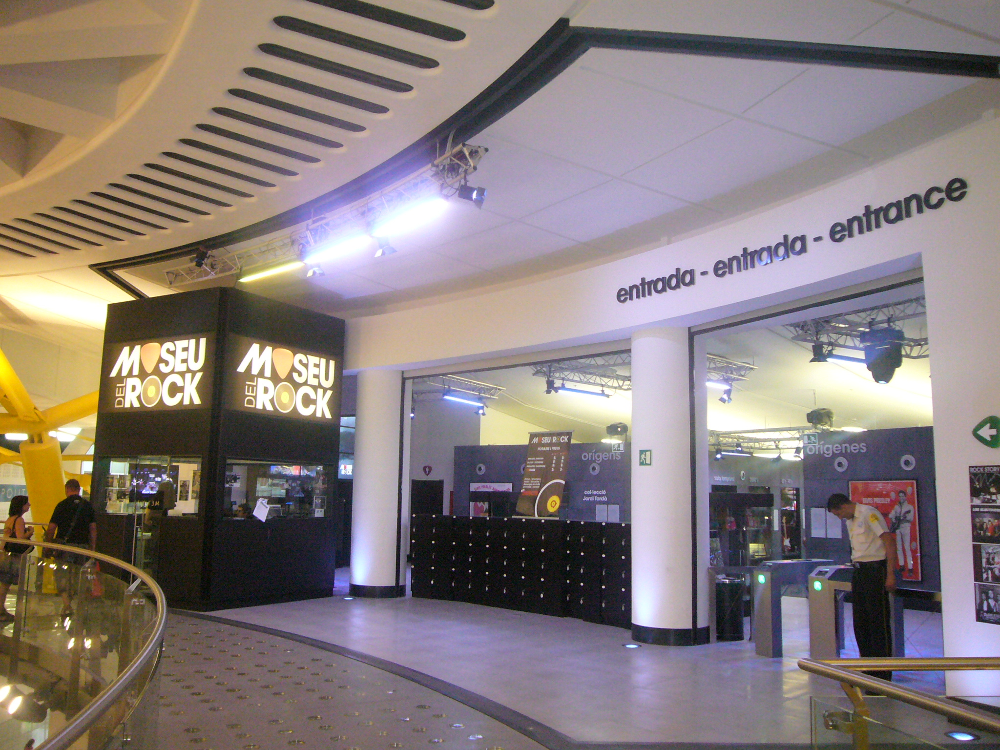 Museu del Rock, les Arenas, Barcelona